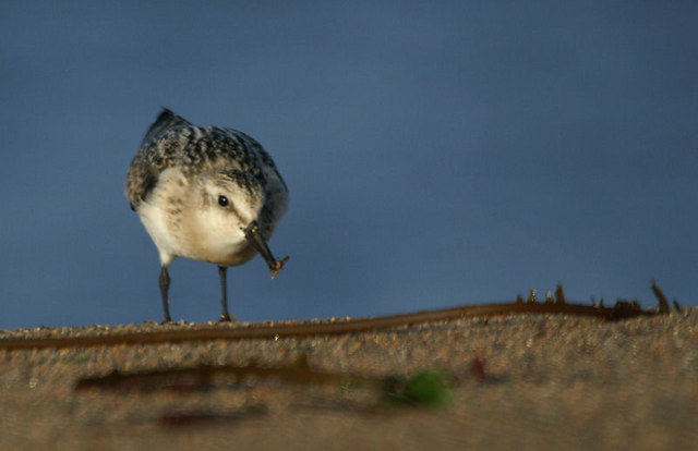 Sanderling (Calidris alba) This bird has just caught a kelp fly.